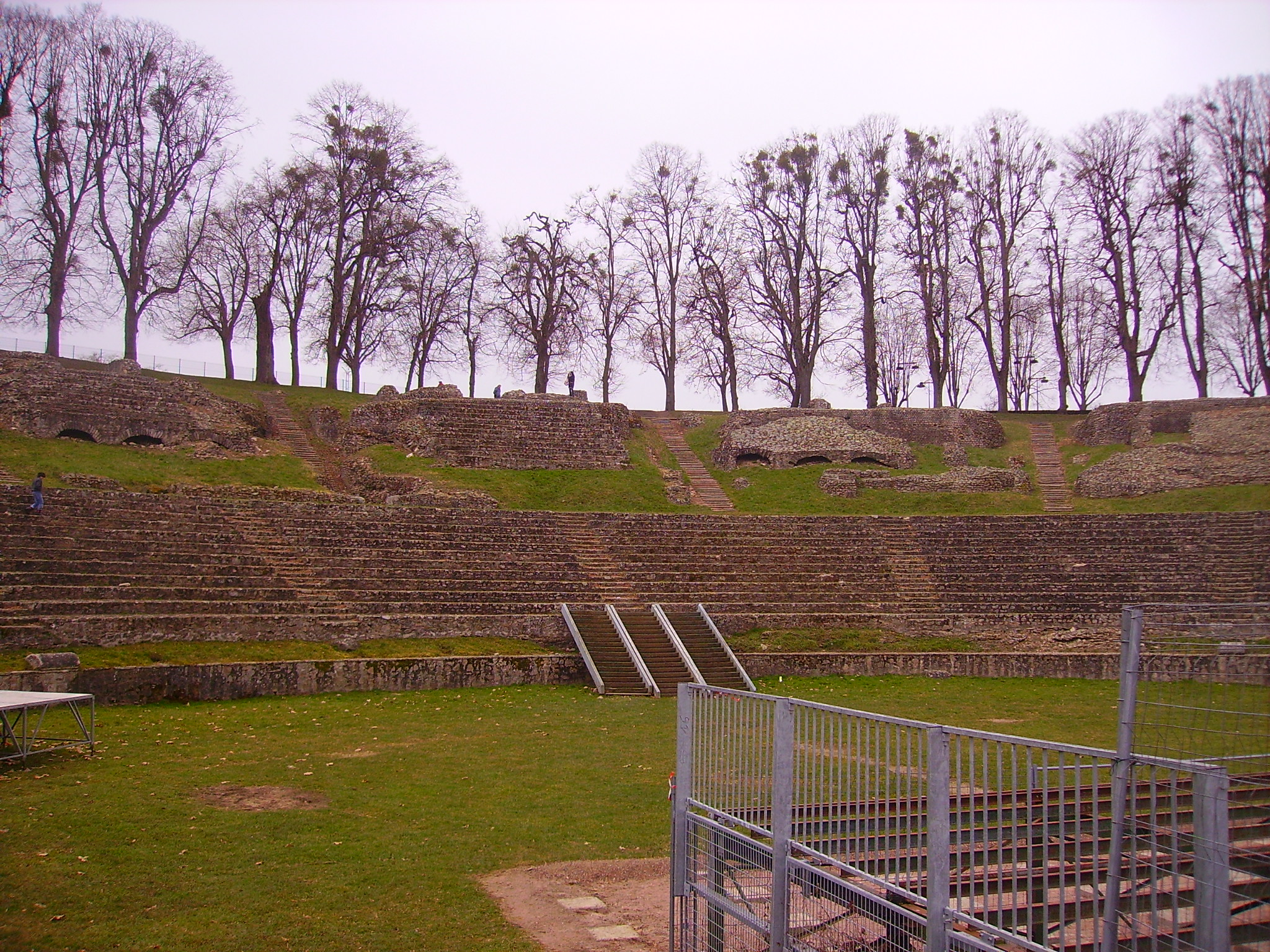 Amphitheatre, Autun